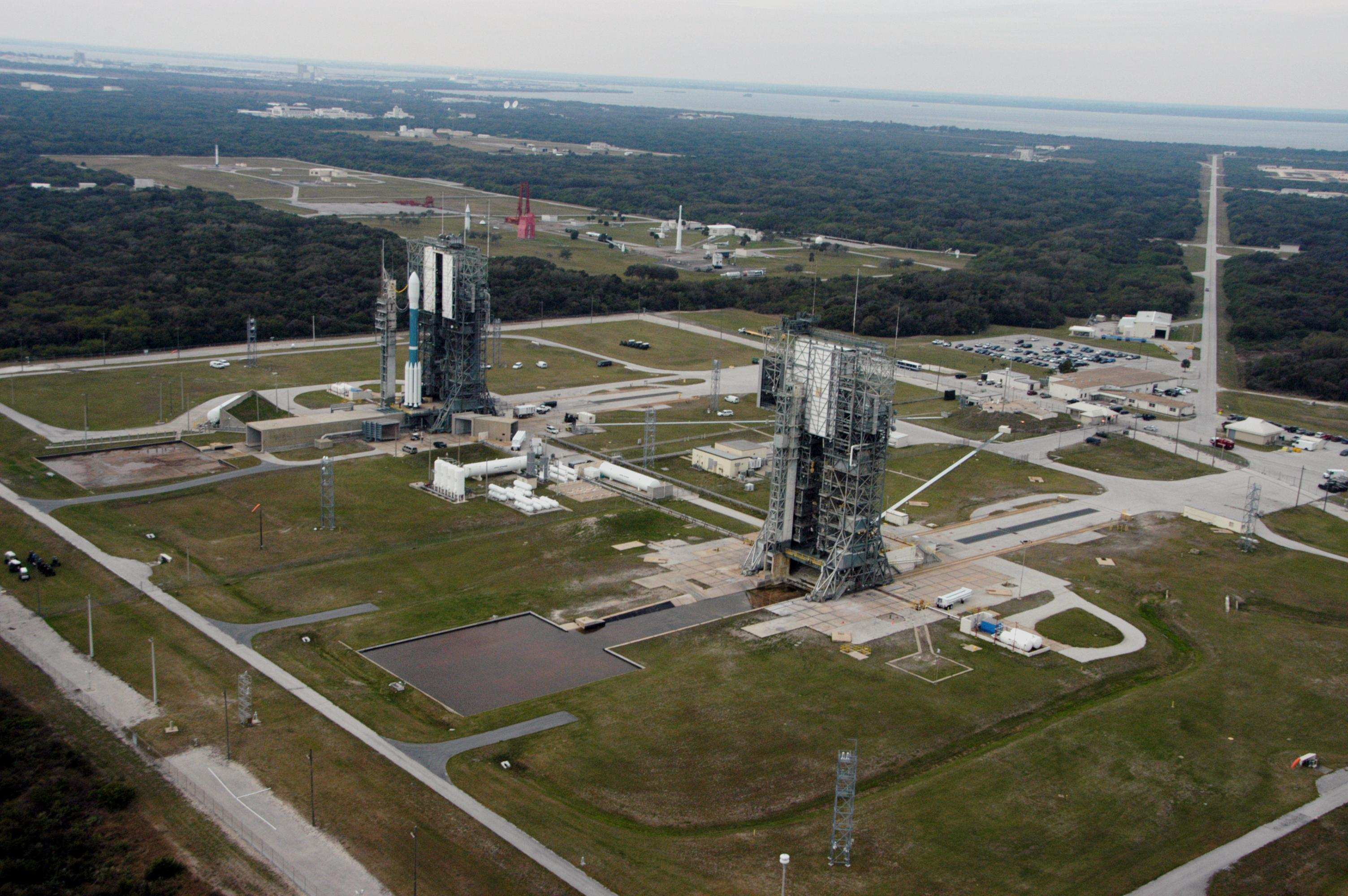 KENNEDY SPACE CENTER, FLA. -- The Delta II rocket with the THEMIS spacecraft atop sits ready for launch on Pad 17B at Cape Canaveral Air Force Station in this aerial view of the launch complex area as the mobile service tower begins to move away. THEMIS, an acronym for Time History of Events and Macroscale Interactions during Substorms, consists of five identical probes that will track violent, colorful eruptions near the North Pole. This will be the largest number of scientific satellites NASA has ever launched into orbit aboard a single rocket. The THEMIS mission aims to unravel the mystery behind auroral substorms, an avalanche of magnetic energy powered by the solar wind that intensifies the northern and southern lights. The mission will investigate what causes auroras in the Earth?s atmosphere to dramatically change from slowly shimmering waves of light to wildly shifting streaks of bright color. Launch is scheduled for 6:05 p.m.